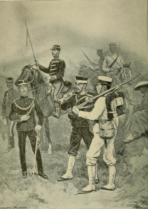 Various types of soldiers of the Japanese army at the time of the Russo-Japanese War (1904-5) - b/w book illustration.